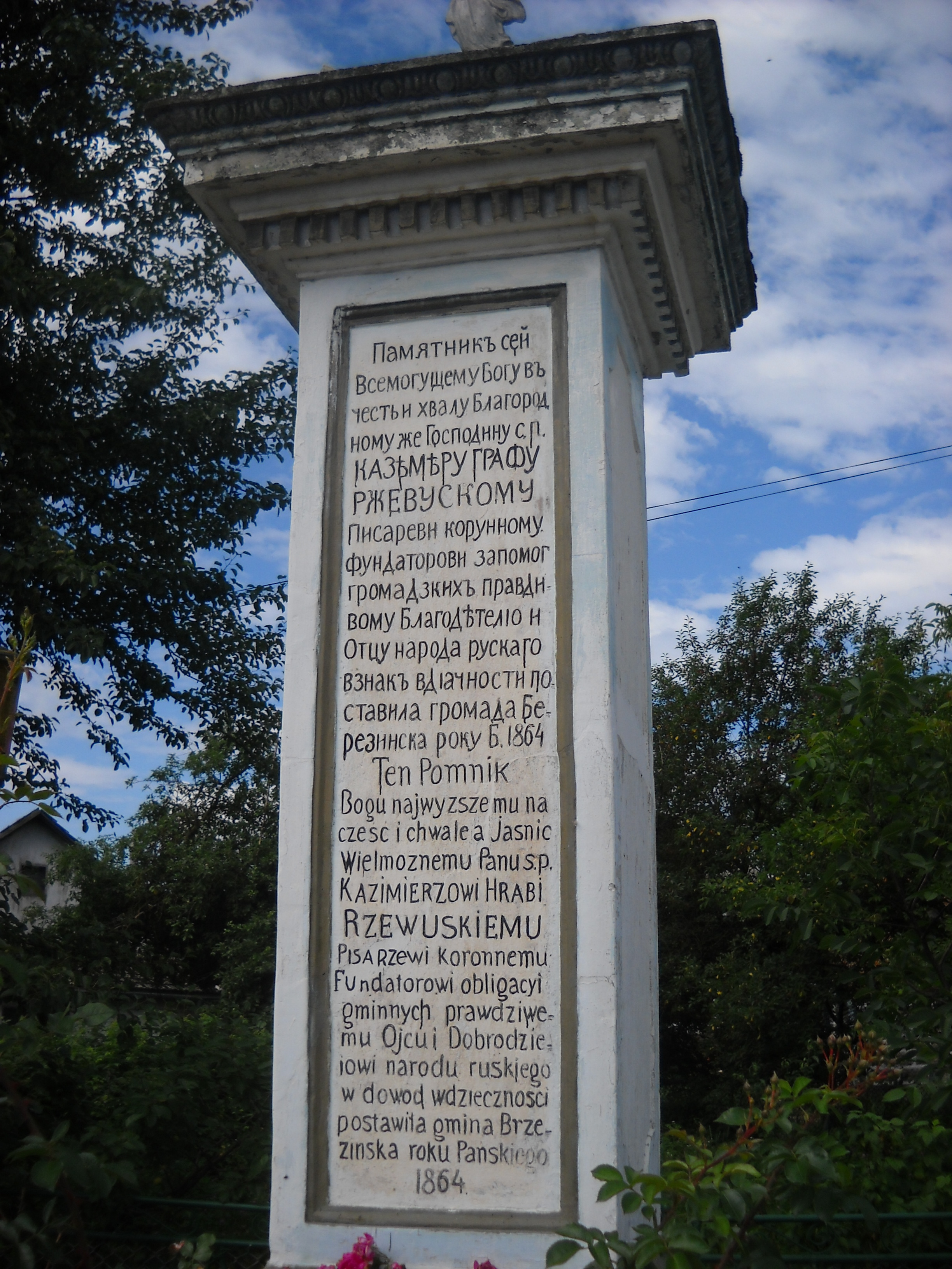 Monument dedicated to Kazimir Zhevusky in the village of Berezin